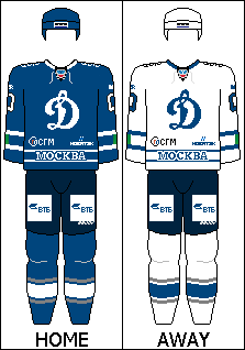 UHC Dynamo Moscow uniforms for 2012/2013 KHL season.